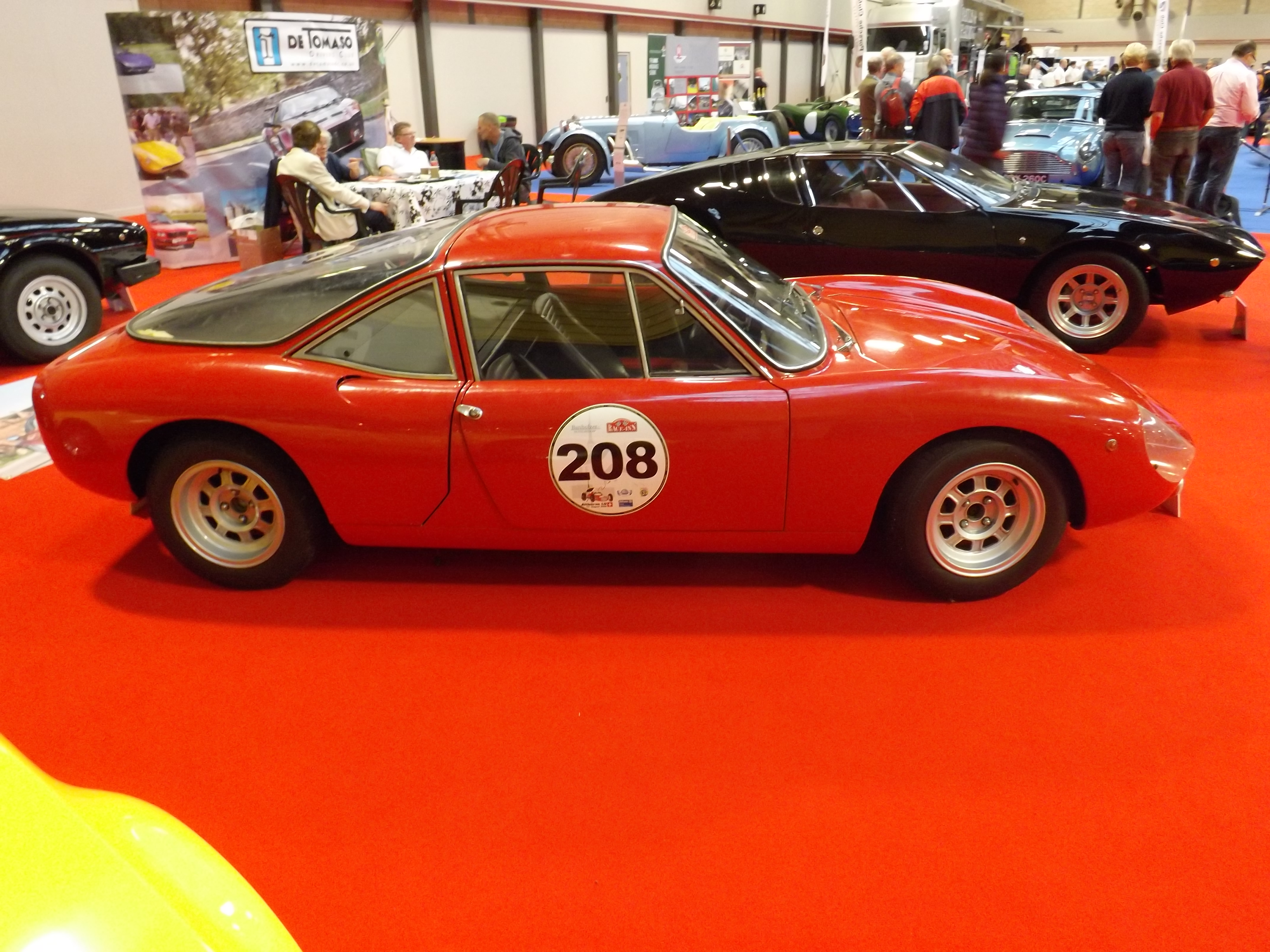 Designed by Carozzeria Fissore, Built by Ghia, 1500cc Ford Cortina engine with a VW Beetle transaxle